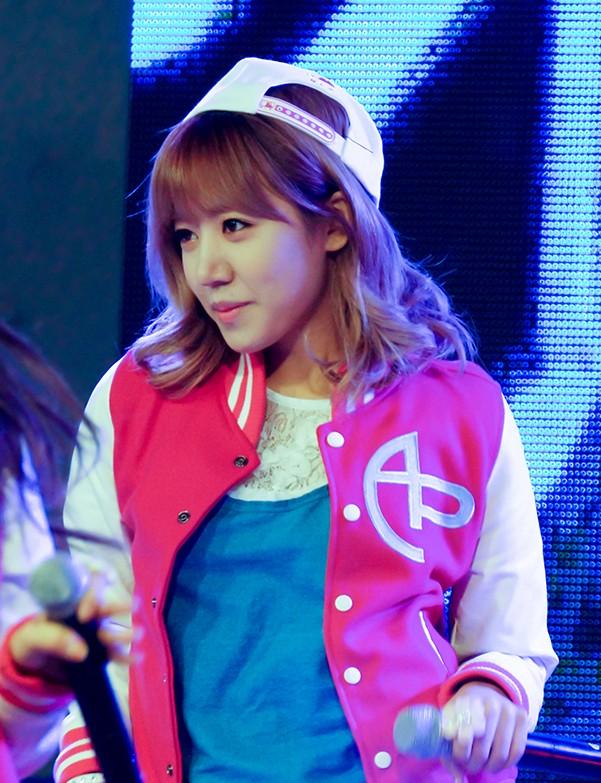 Kim Namjoo on October 31, 2013